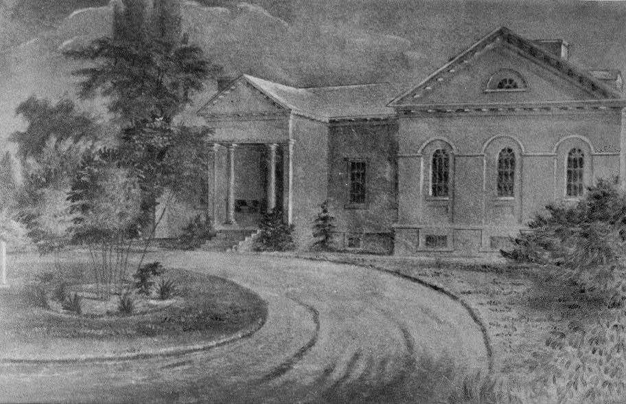 9. Historic American Buildings Survey Copy by John O. Brostrup, Photographer of sketch loaned by Mrs. Cooper Davison August 27, 1936 4:30 P. M. VIEW FROM NORTHWEST. - General John Mason House, Analostan Island or Theodore Roosevelt Island, Washington, District of Columbia, DC